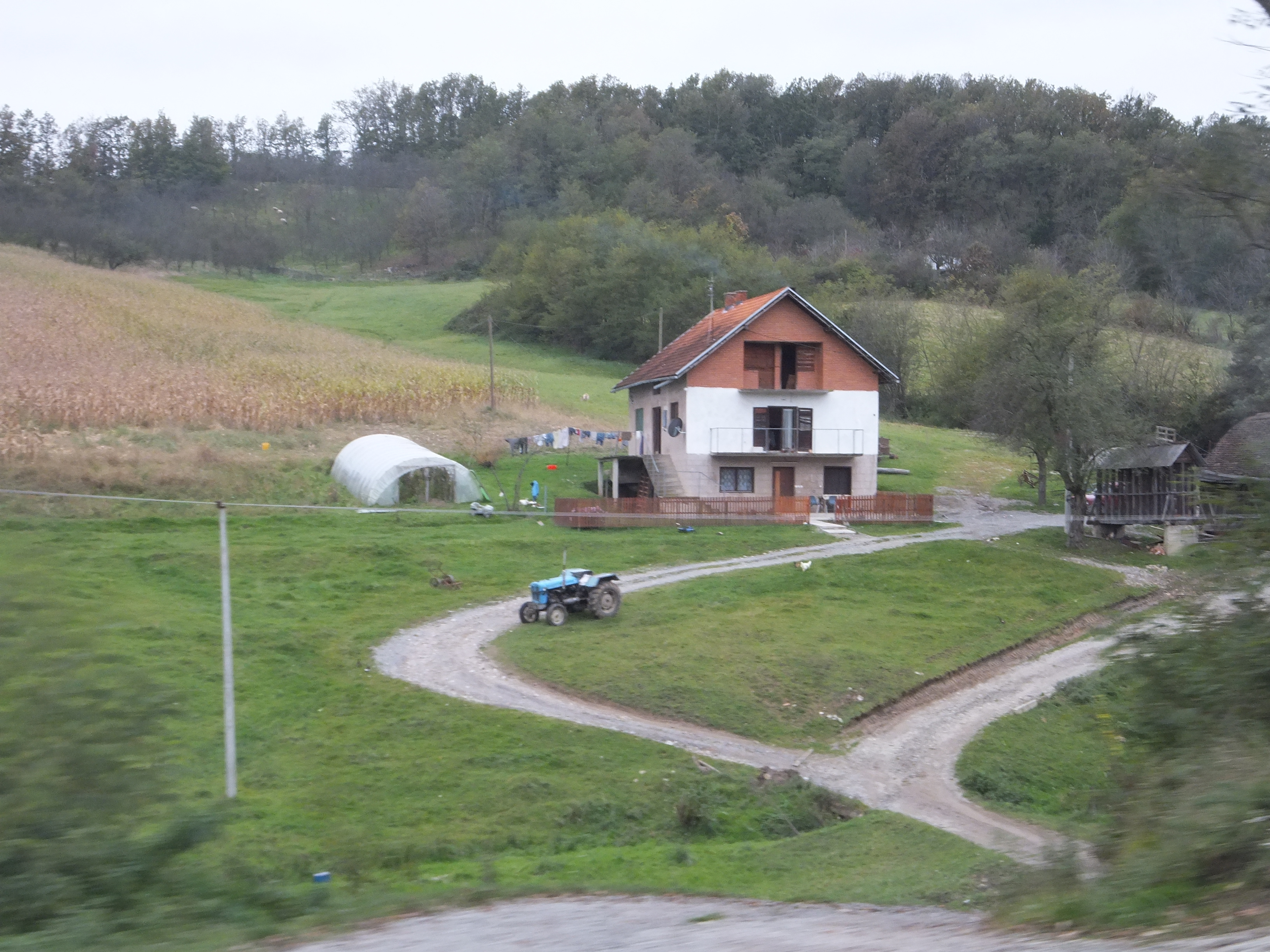 Ozrem, Street